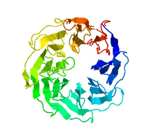 wdr53